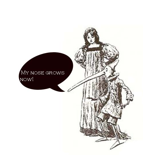 The Pinocchio paradox. When Pinocchio says "My nose grows now" it creates a Liar sentence and makes Pinocchio's nose to grow if and only if it does not grow.